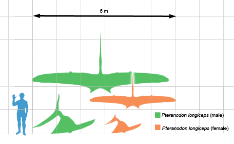 Scale diagram for Pteranodon longiceps. Male (green) based on specimen YPM 2437. Female (orange) based on holotype specimen YPM 1177